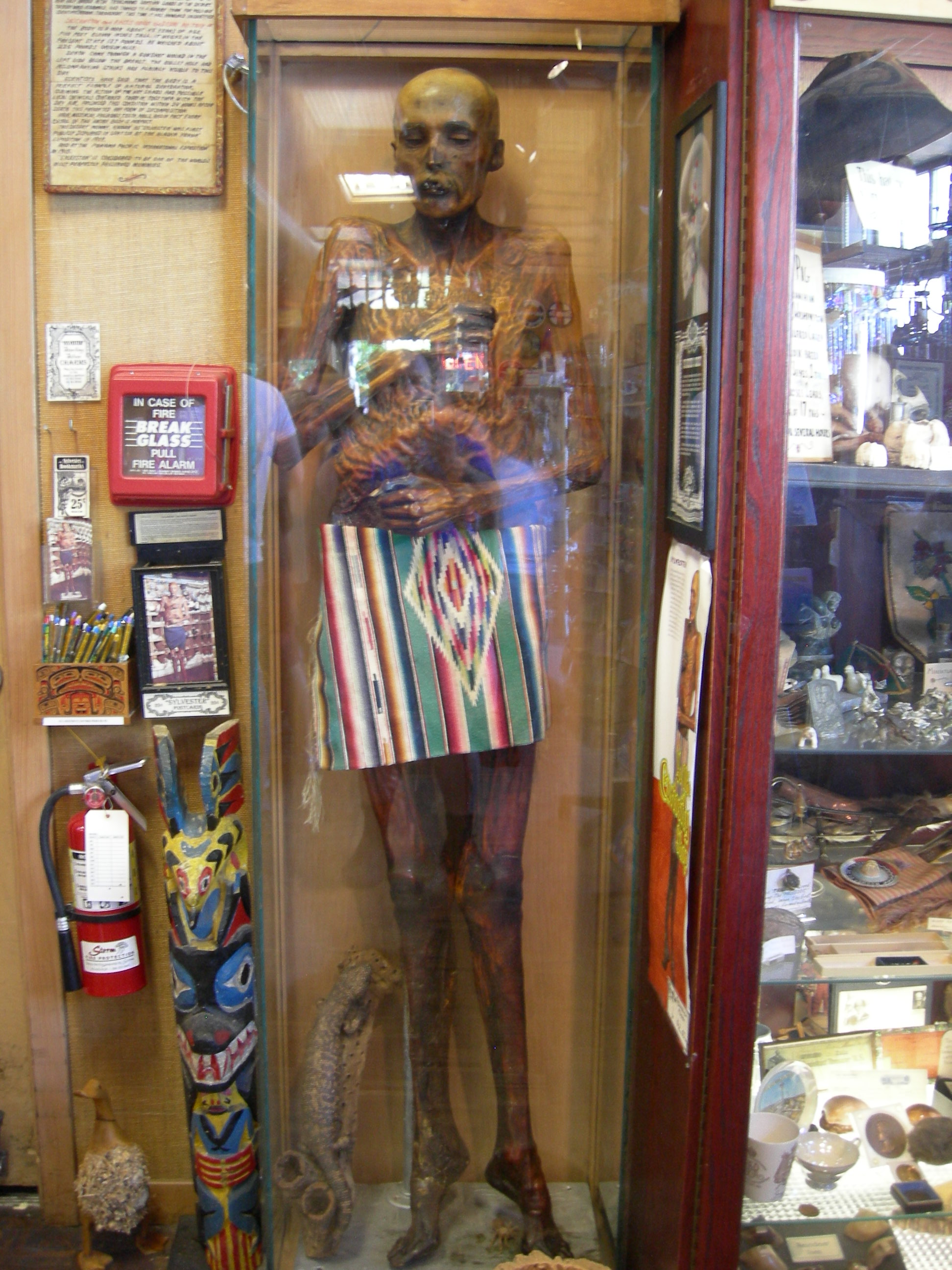 "Sylvester" the mummy, Ye Olde Curiosity Shop, Seattle, Washington.